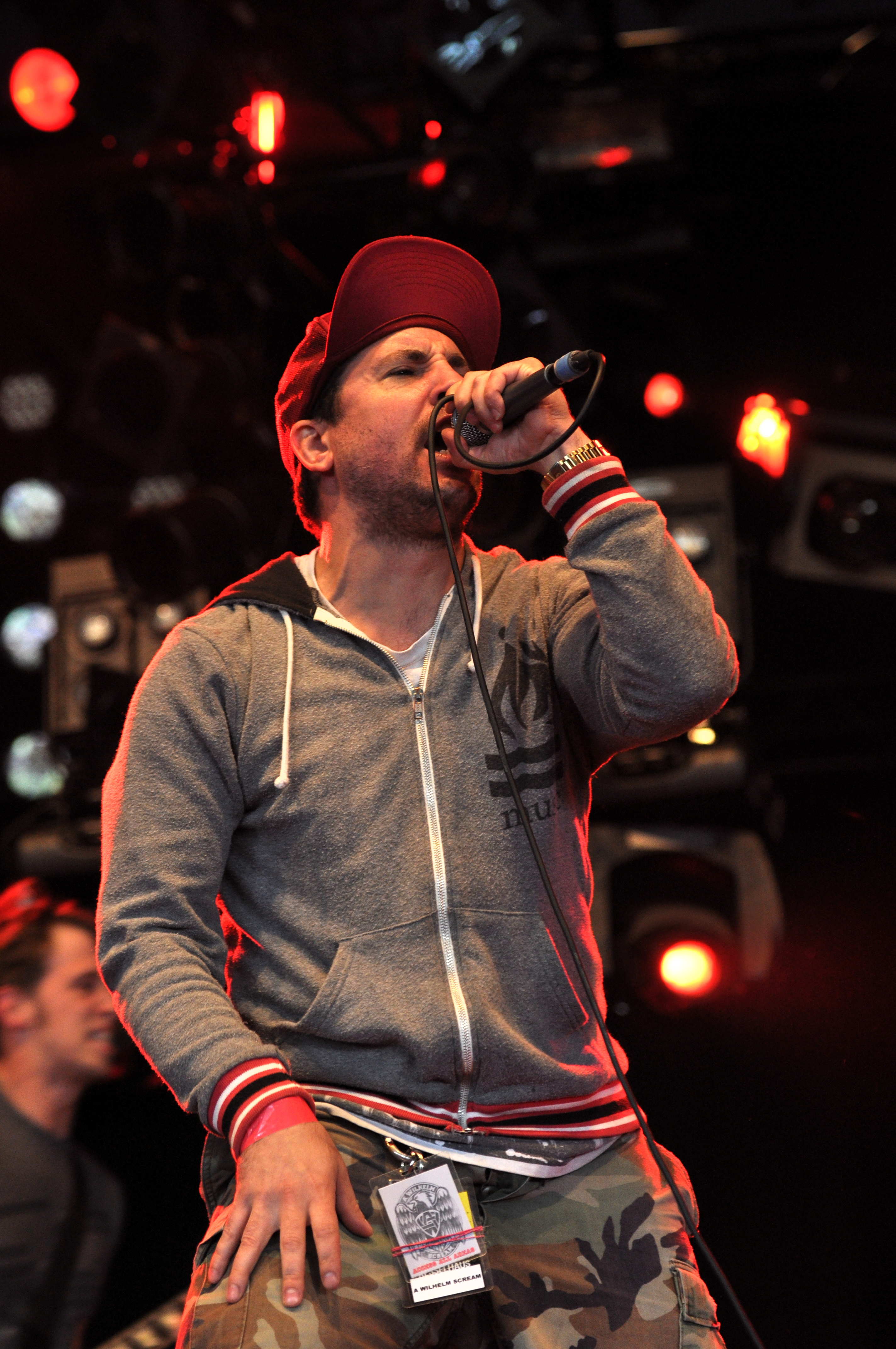 A Wilhelm Scream at Groezrock 2013